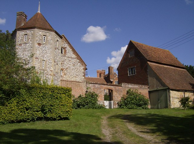 Greys Court, Rotherfield Greys, Oxfordshire: the Keep (left) and Well House (right)